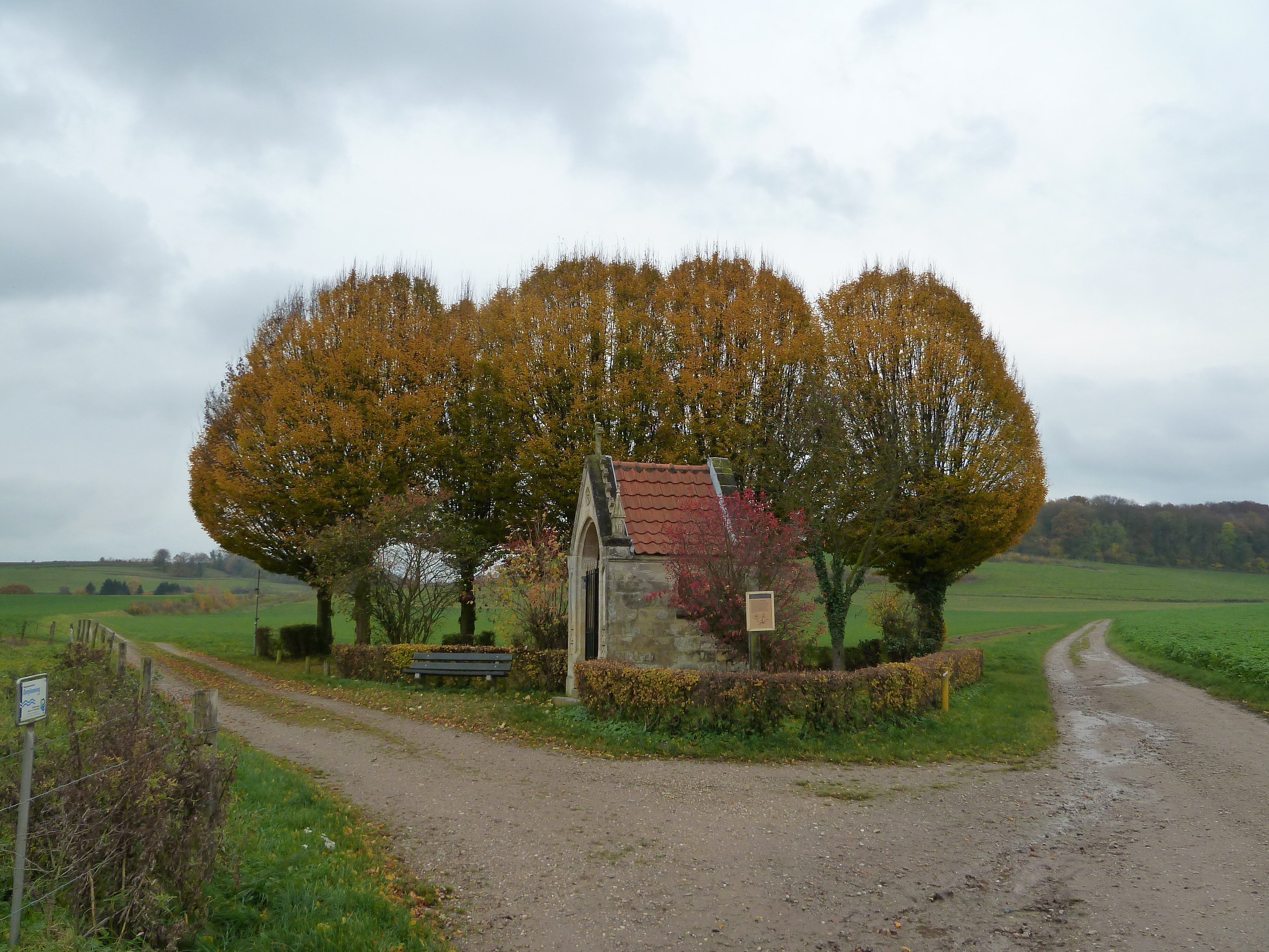 Chapel Sint Jansbosweg-Kapelkensveldweg, Oud-Valkenburg, Limburg, the Netherlands